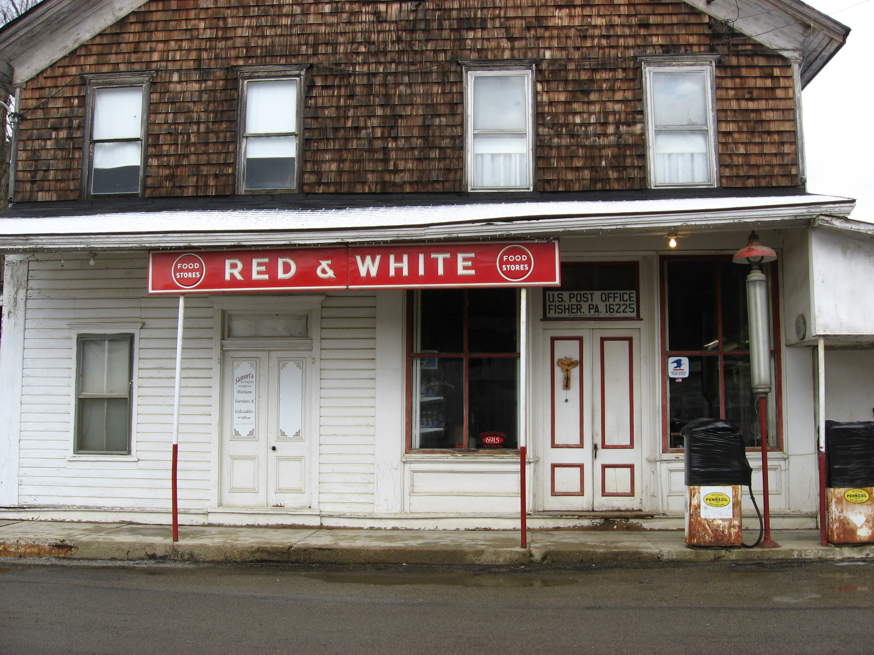 The only store in my hometown. It is a Red & White store that rents videos, sells groceries, has a post office attached and is the general center of the "town". The gasoline pumps were shut off around 16 years ago.